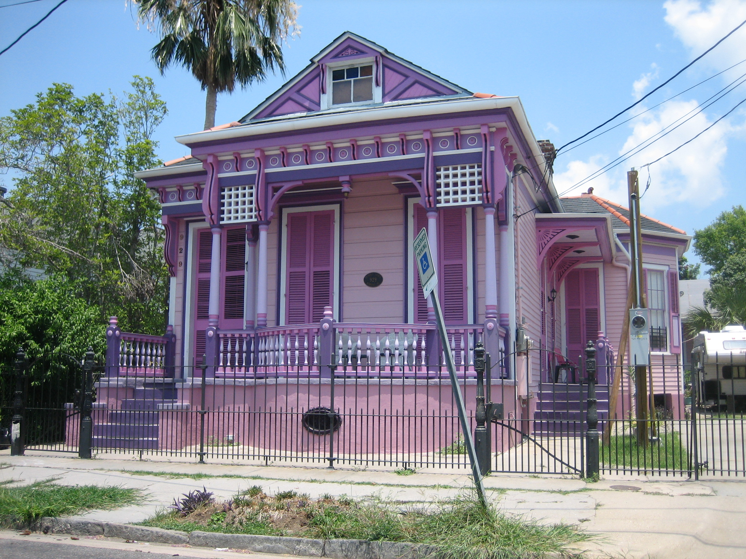 New Orleans: 19th century wooden house in Marigny neighborhood